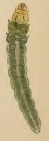 Stainton’s Natural History of the Tineina (1855–1873): Elachista tetragonella